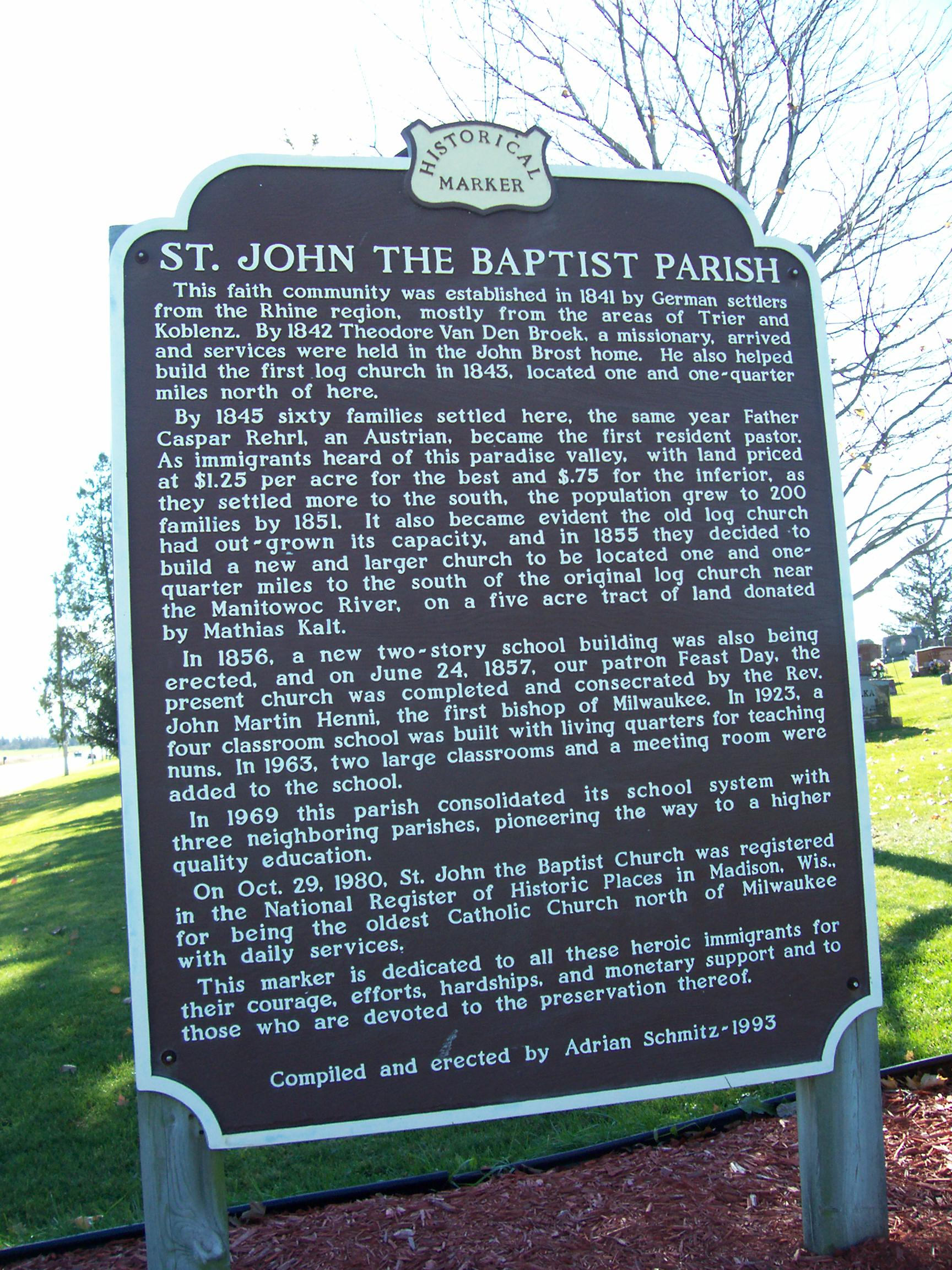 The registered historic place marker for Image:JohnsburgWisconsinStJohnsChurch.jpg in Johnsburg, Wisconsin, United States. The opposite side of the sign can be seen at Image:FatherCasperRehrlMarker.jpg.